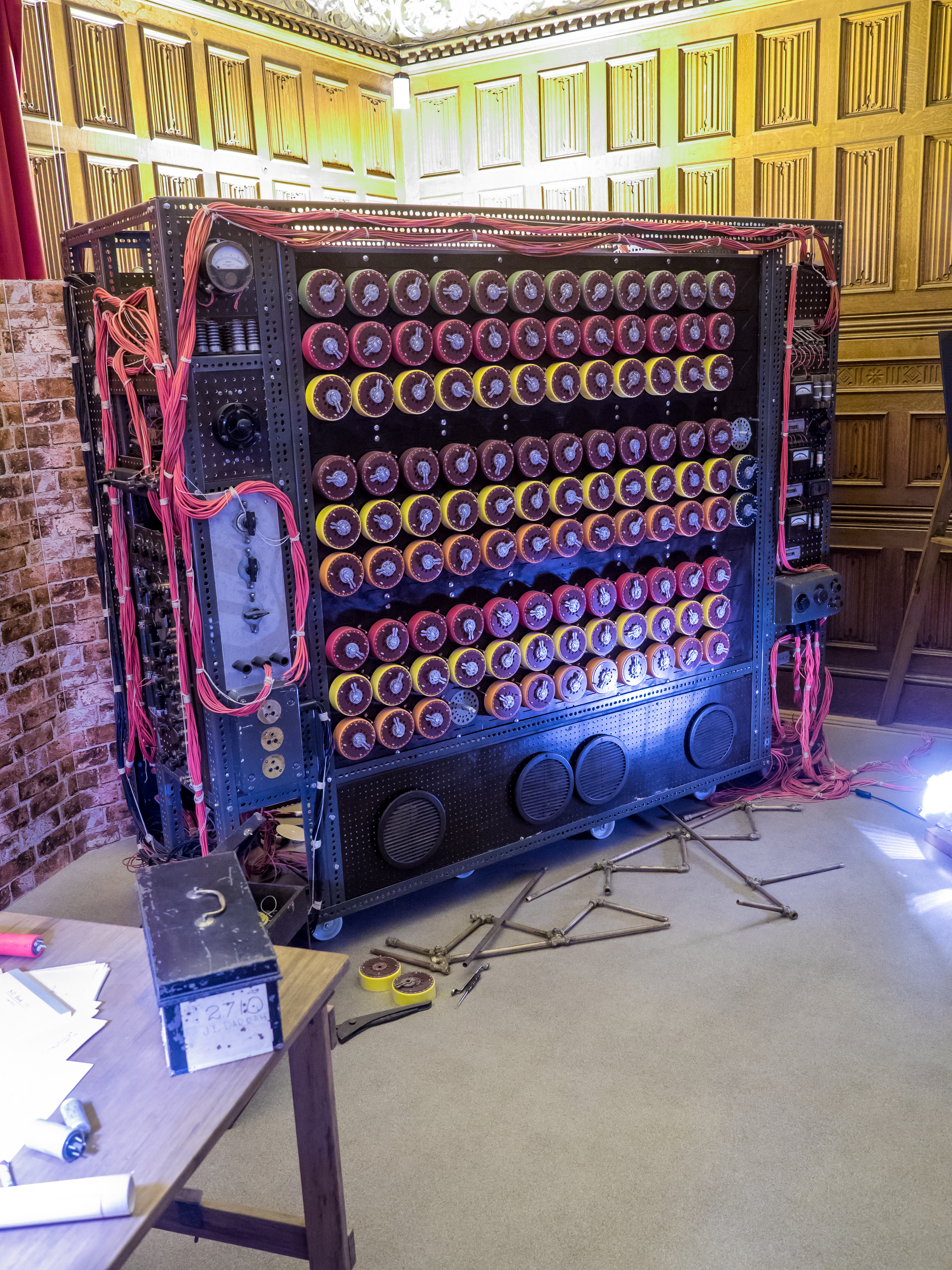 Christopher (the bombe machine) from the film The Imitation Game, Bletchley Park, Bletchley, Milton Keynes, Buckinghamshire, England